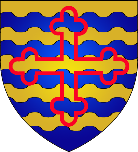 Coat of arms of the municipality of Reisdorf, Luxembourg